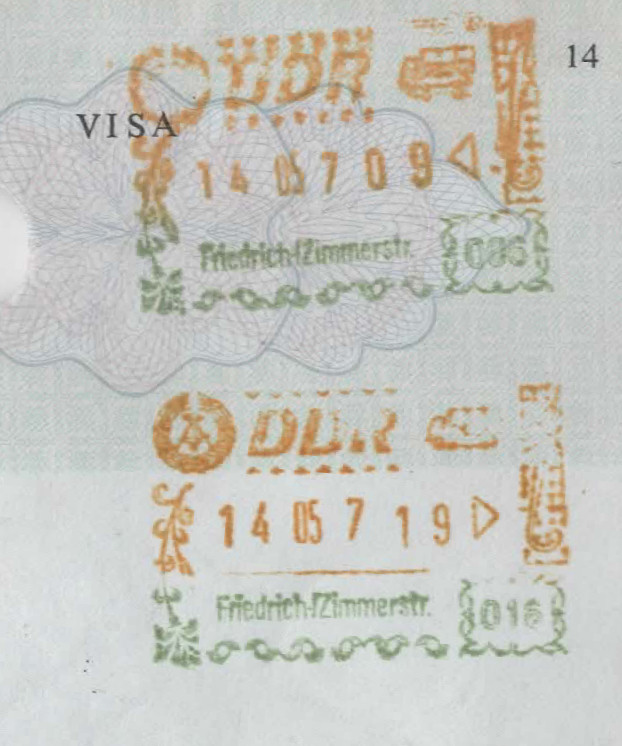 Visa stamps in a Dutch passport for entry and exit at the border crossing between the Federal Republic of Germany and the German Democratic Republic at Checkpoint Charlie in Berlin. Stamp date May 14th, 1987